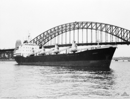 Supply ship HMAS Jeparit in Sydney Harbour. The Sydney Harbour Bridge is in the background.